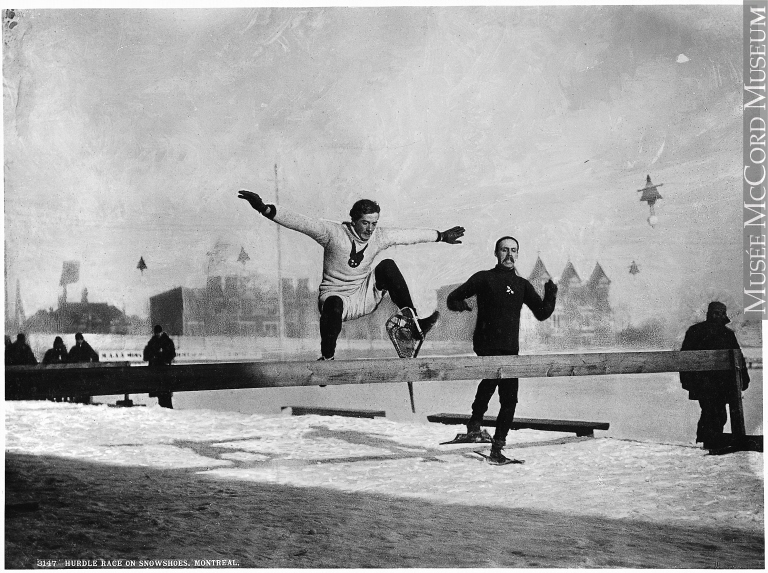 Photograph Hurdle race on snowshoes, Montreal, QC, 1892 Wm. Notman & Son 1885-1915, 19th century or 20th century Silver salts on glass - Gelatin dry plate process 20 x 25 cm Purchase from Associated Screen News Ltd. VIEW-3147.0 © McCord Museum